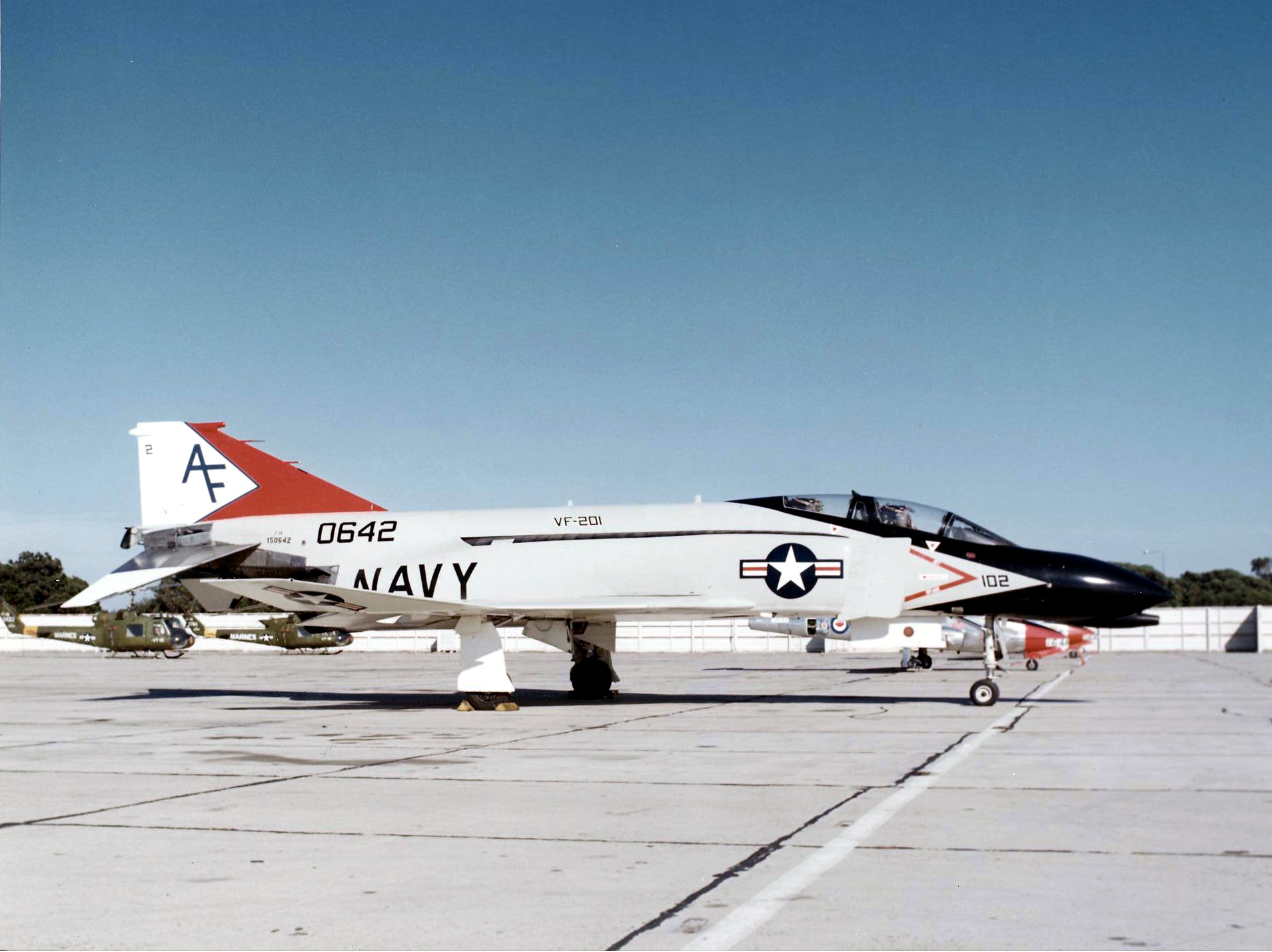 A U.S. Navy Reserve McDonnell F-4N Phantom II (BuNo 150642) of Fighter Squadron VF-201 at Naval Air Station North Island, California (USA), in 1976. 150642 (c/n 300) was delivered as an F-4B-14-MC and was converted to an F-4G in April 1964. The F-4G equipment was removed in October 1966. The aircraft was converted to an F-4N in October 1973 and retired on 22 February 1984. Note that the Sanders AN/ALQ-126 electronic countermeasures equipment which was fitted in long antenna fairings on the sides of the upper air intakes is missing.